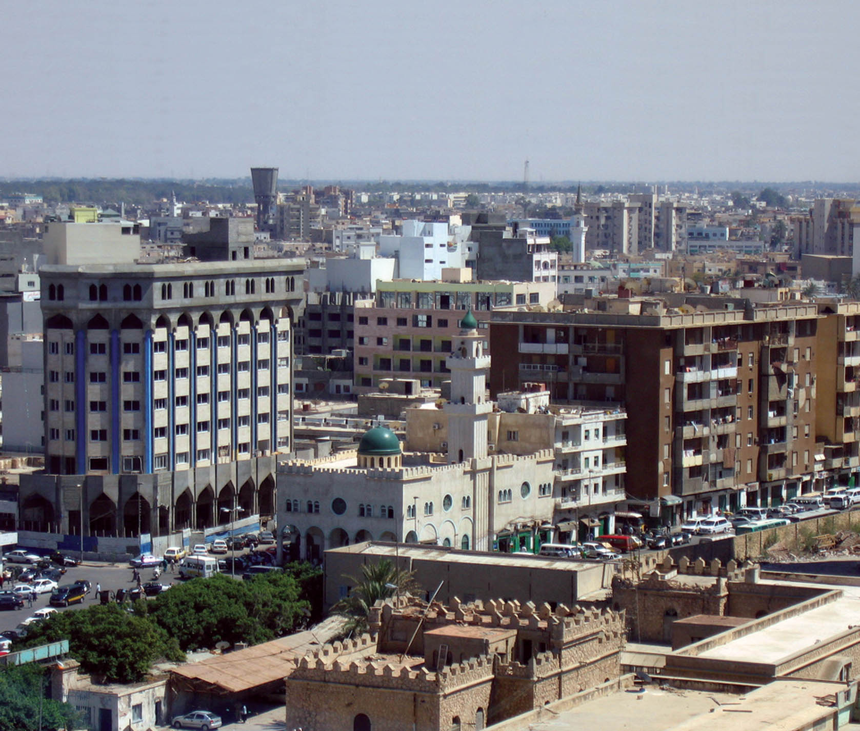 Panorama of Tripoli taken from the Corinthia Bab Africa Hotel. In the foreground is the old tobacco factory.